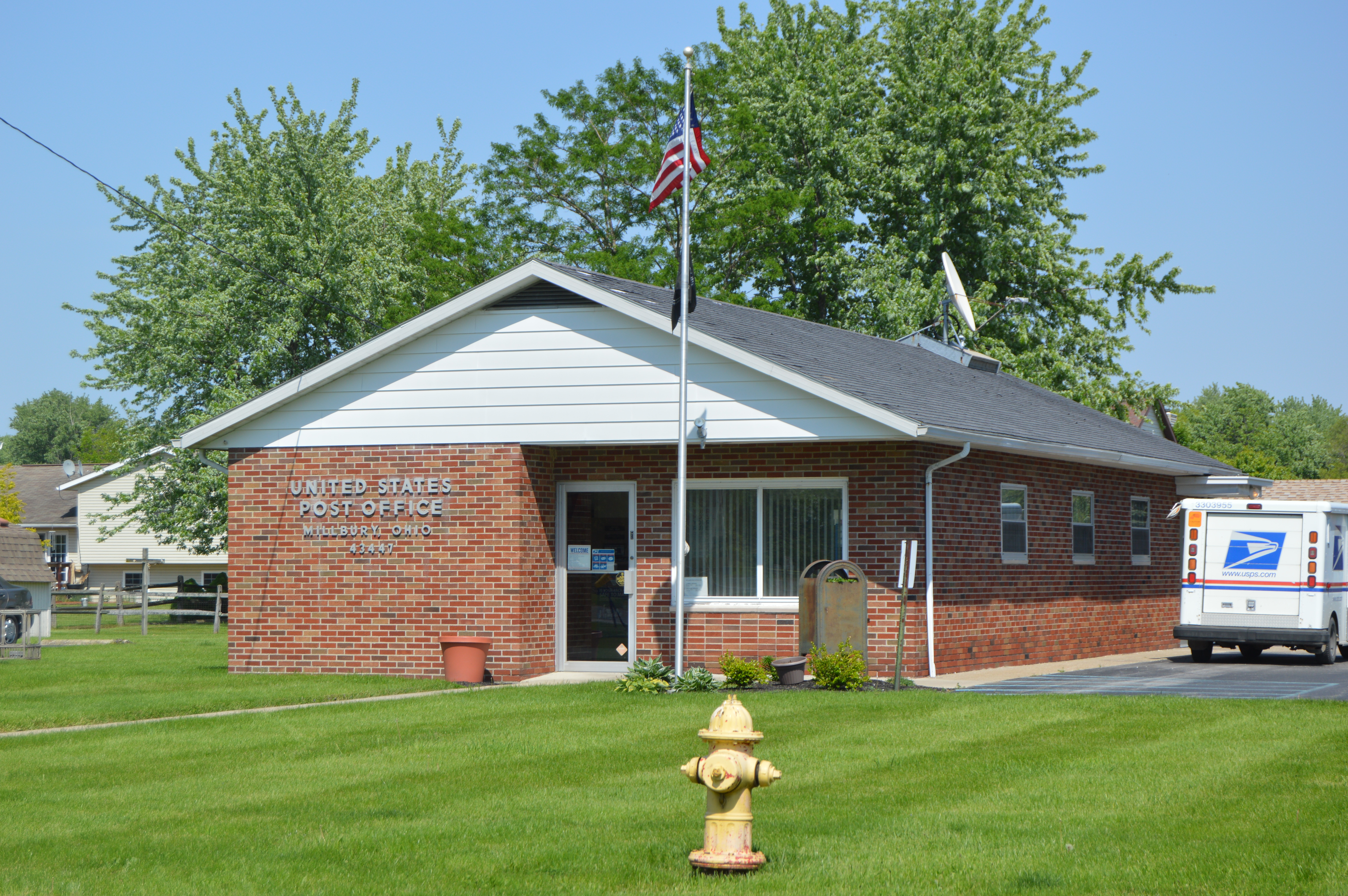 Front and southern side of the Millbury post office, located at 28506 Main Street in Millbury, Ohio, United States.